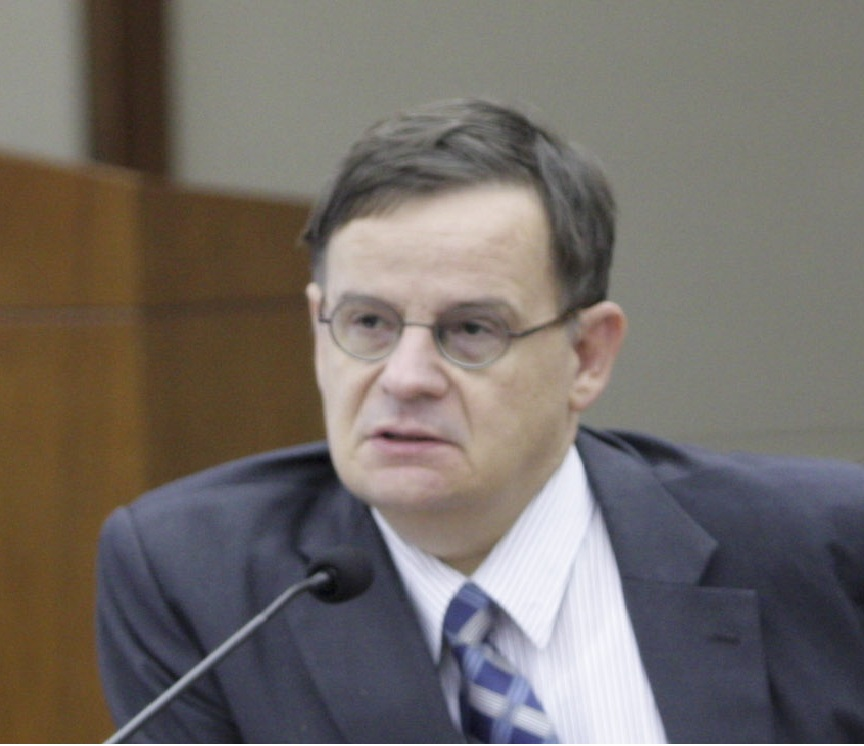 Professor Andrei Lankov, Russian koreanologist